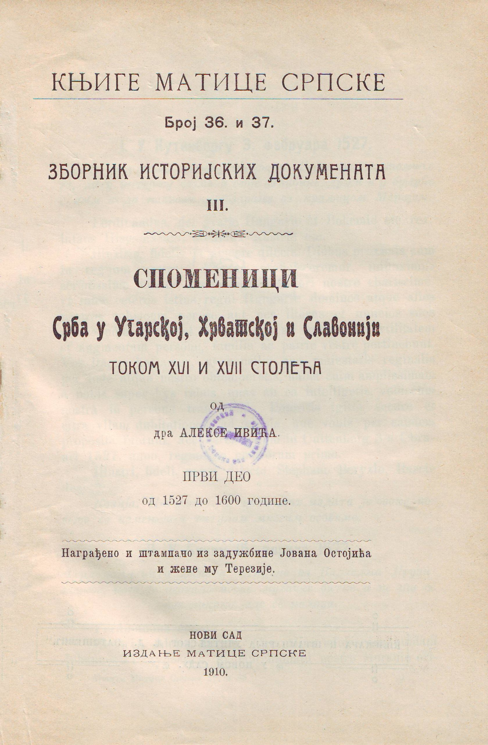 Cover of the first part of collection of historical sources Spomenici Srba u Ugarskoj, Hrvatskoj i Slavoniji tokom XVI i XVII stoleća (1910) by Aleksa Ivić. Srpski (latinica): Naslovna strana prvog dela zbirke istorijskih izvora Spomenici Srba u Ugarskoj, Hrvatskoj i Slavoniji tokom XVI i XVII stoleća (1910) Alekse Ivića.